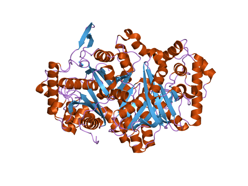 Cartoon representation of the molecular structure of protein registered with 2iik code.